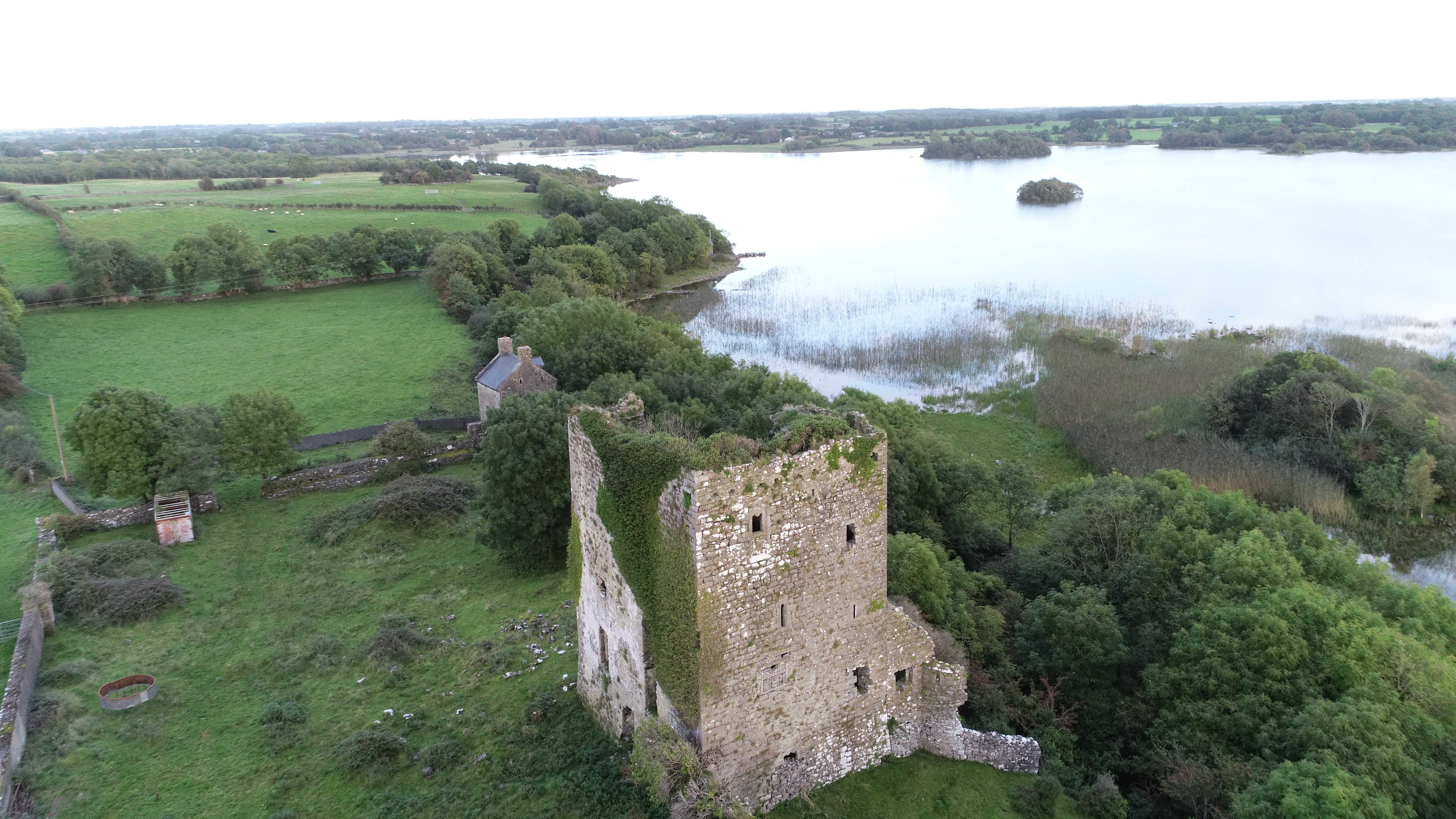 Castleburke Castle Co Mayo